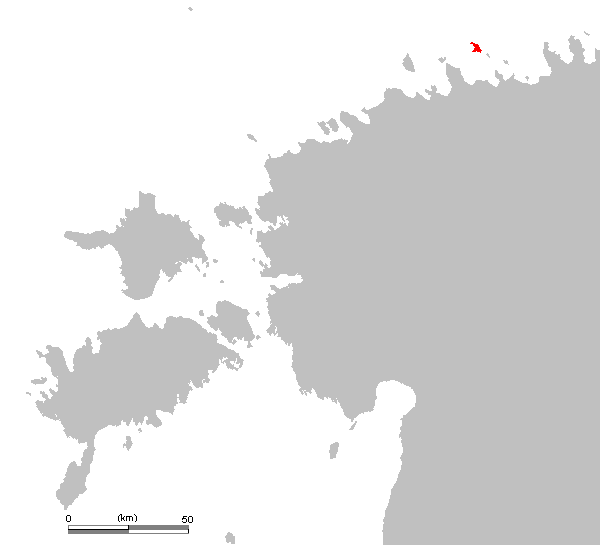 Prangli island in Estonia